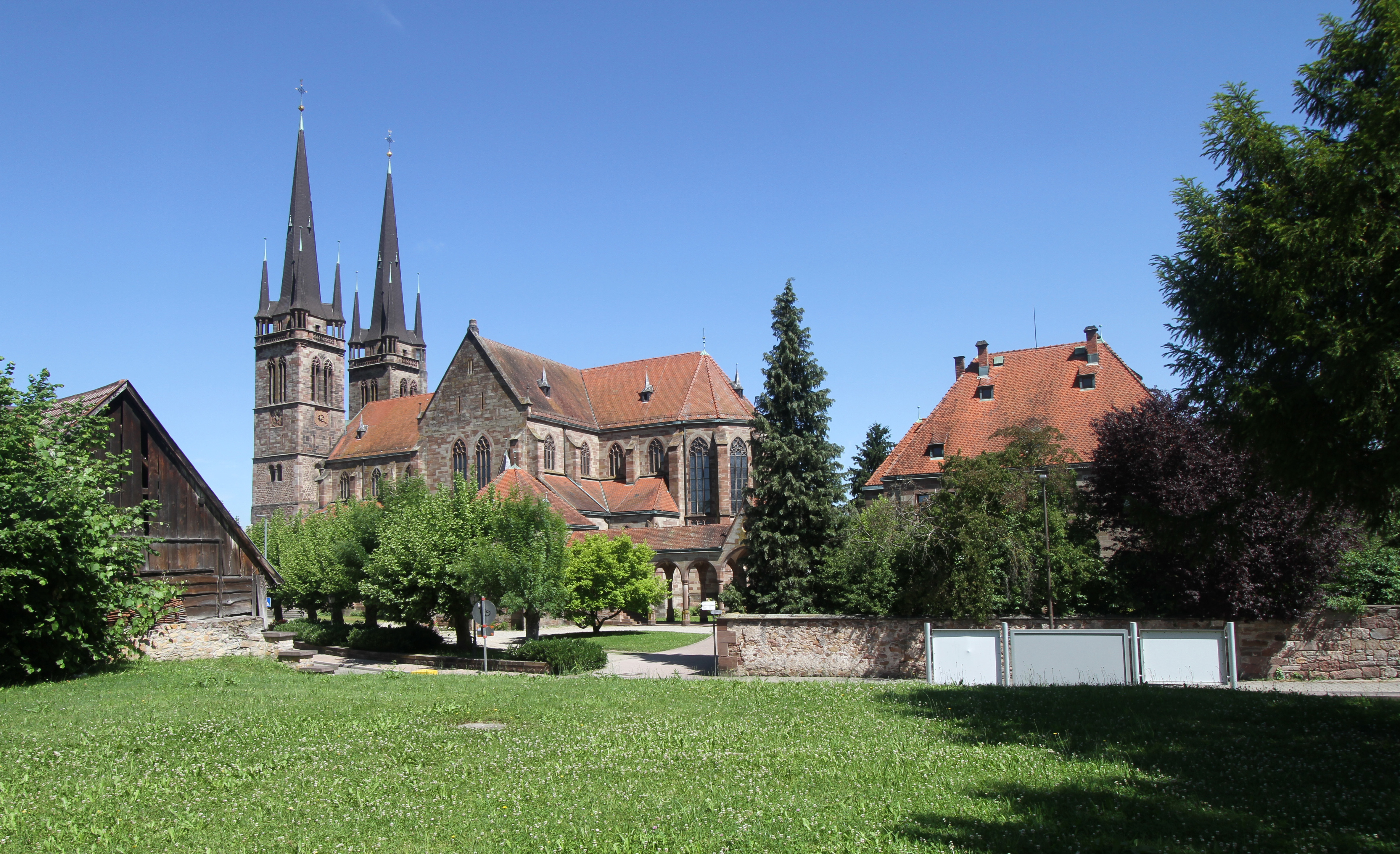 Church of St. Johannes in Ottersweier.